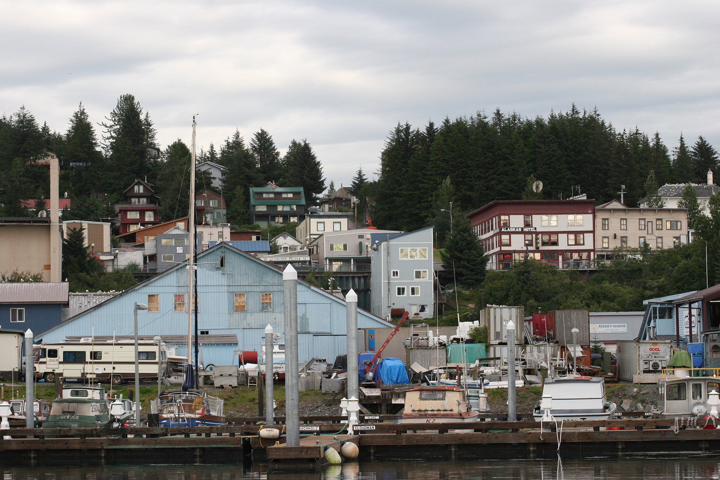 A distant shot of an area of Cordova, Alaska